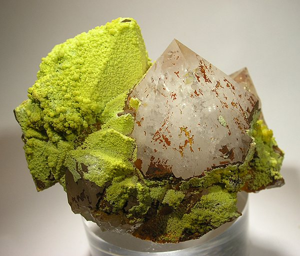 Pyromorphite, Quartz Locality: Dry Gill Mine, Caldbeck Fells, North and Western Region (Cumberland), Cumbria, England, UK (Locality at ) Size: small cabinet, 7.7 x 5.8 x 5.2 cm Pyromorphite on Quartz A uniquely balanced and simply gorgeous specimen that is really not so much a pyro as an association piece. It is quite dramatic, and the color is really MORE intense than shown. I am told by English dealers who have seen it (and wanted it) that it is as uniquely composed a specimen as I think it is. It is shown here not fully cleaned.